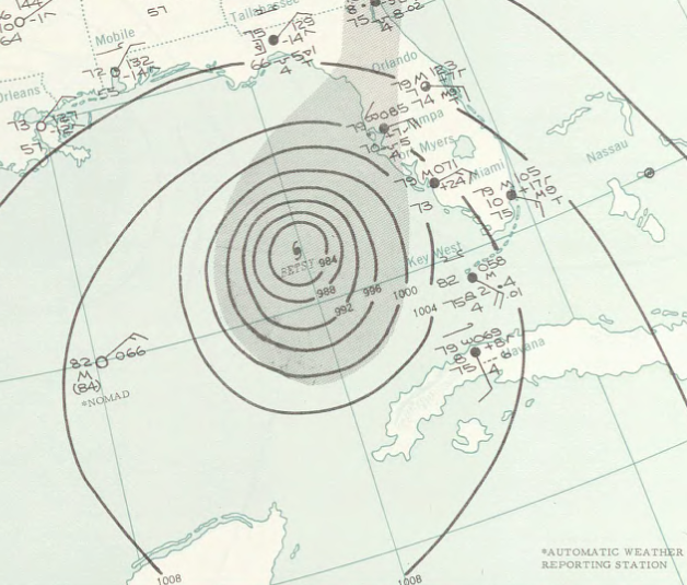 Surface weather analysis of Hurricane Betsy in the Gulf of Mexico on September 8, 1965